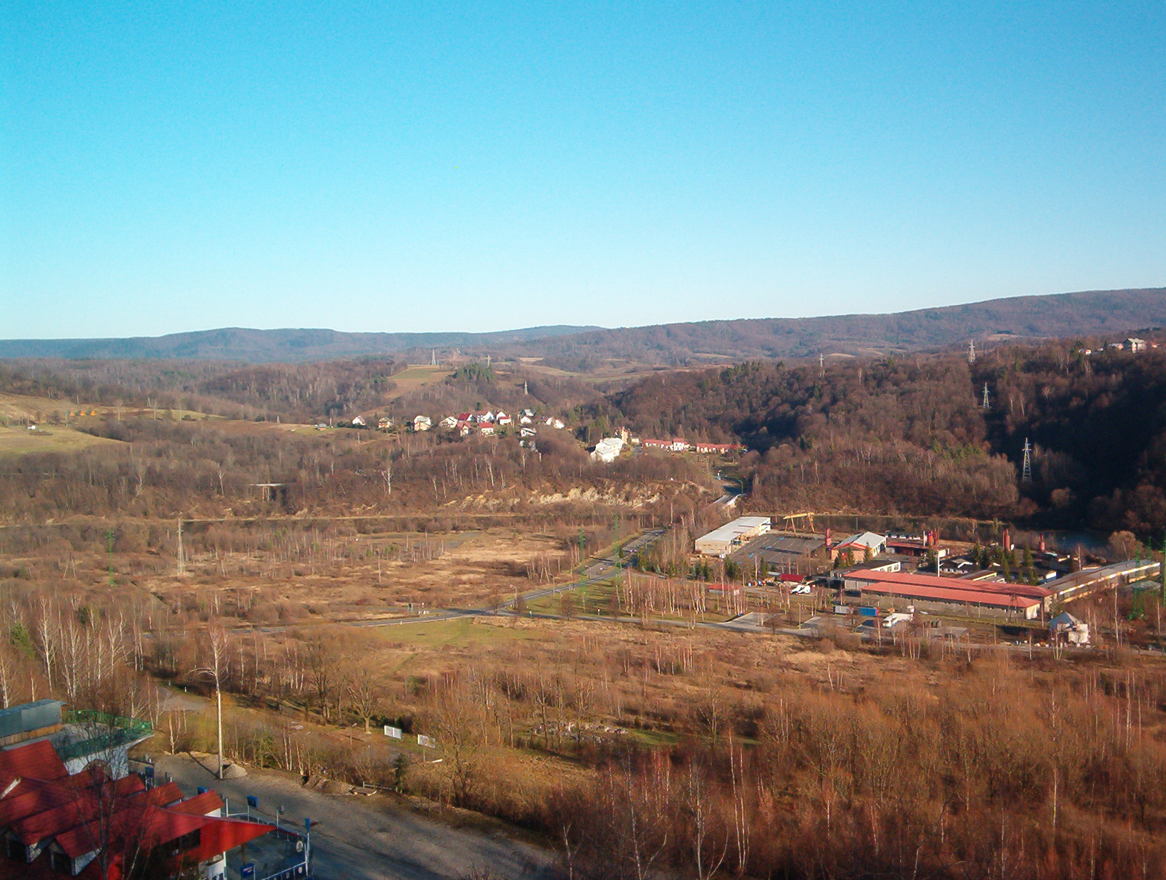 Solina Village autumn.